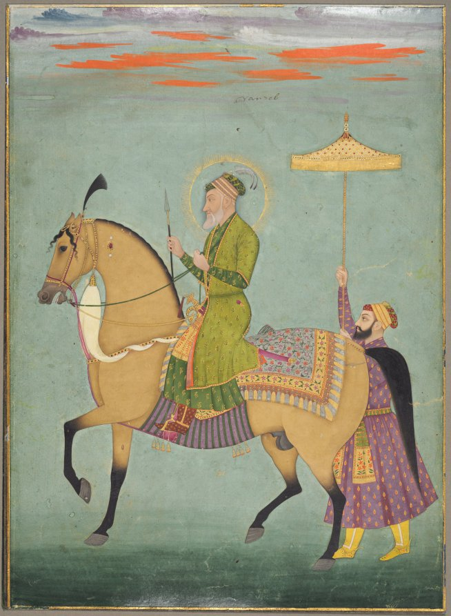 The Emperor Aurangzeb on Horseback ca. 1690–1710 The Cleveland Museum of Art